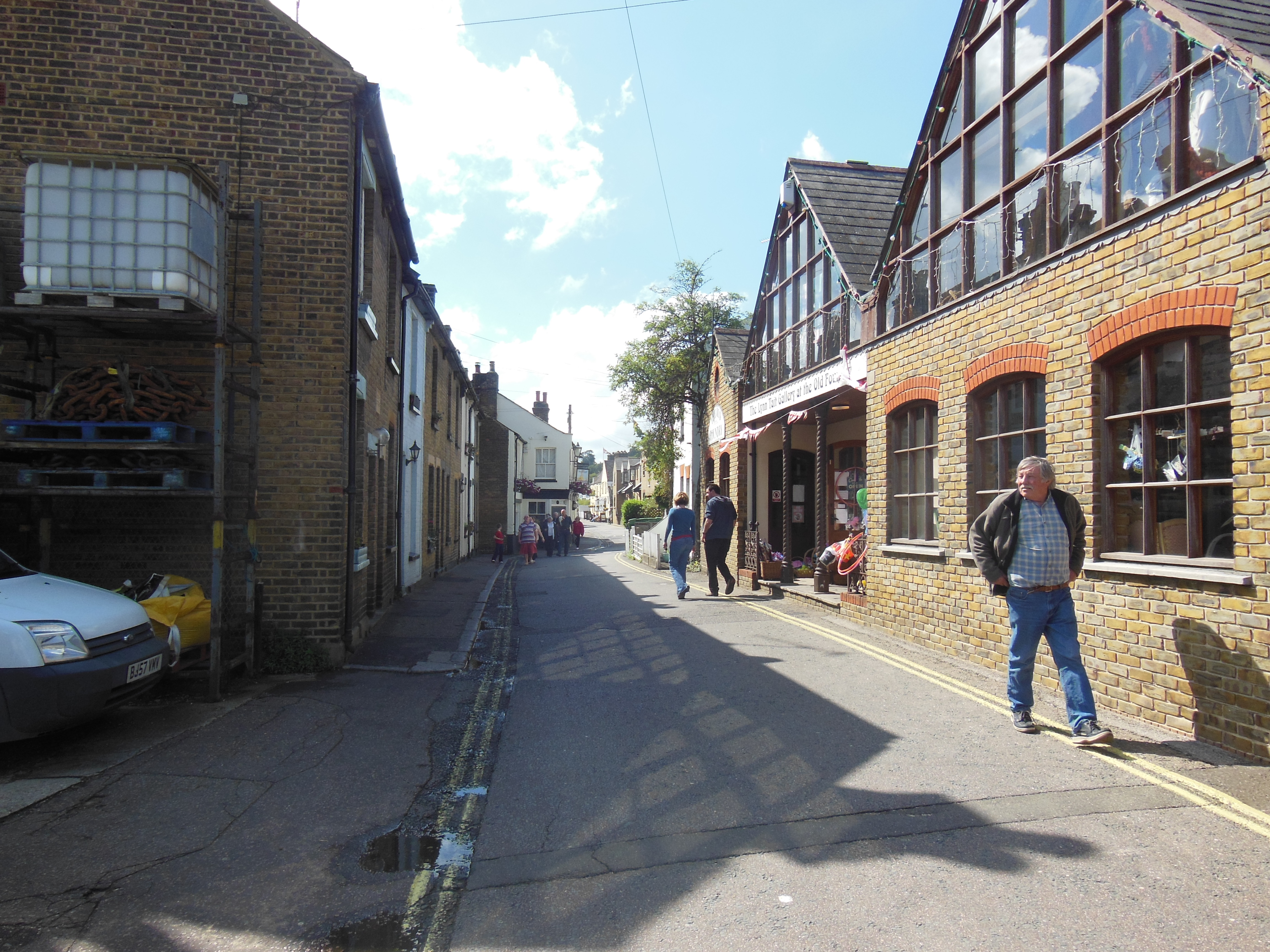 The High Street in Old Leigh at Leigh-on-Sea in the English county of Essex. For more information, see Wikipedia article Leigh-on-Sea.